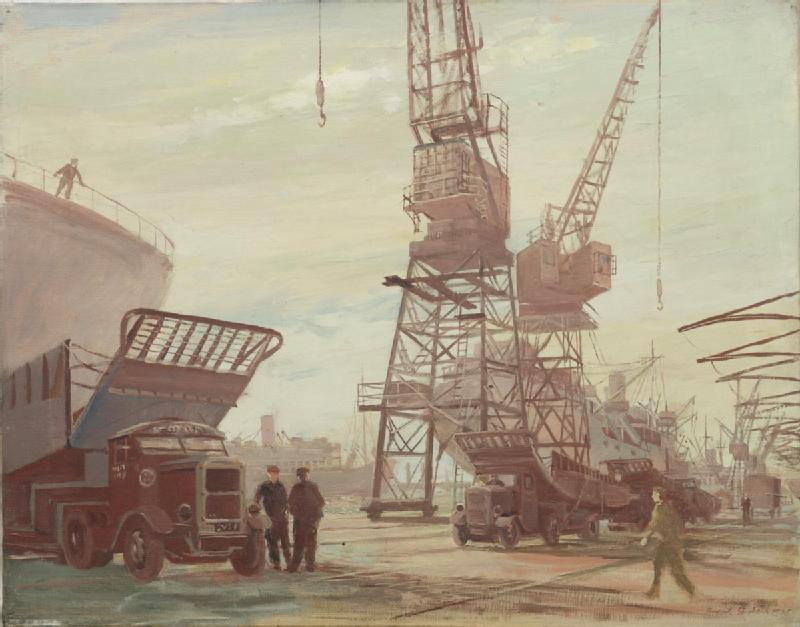 A dock scene with two cranes in the centre having just placed landing craft on the back of two trucks.Another truck with a landing craft is to the left foreground.Ships are moored at the dockside in the background and three figures are in the foreground.